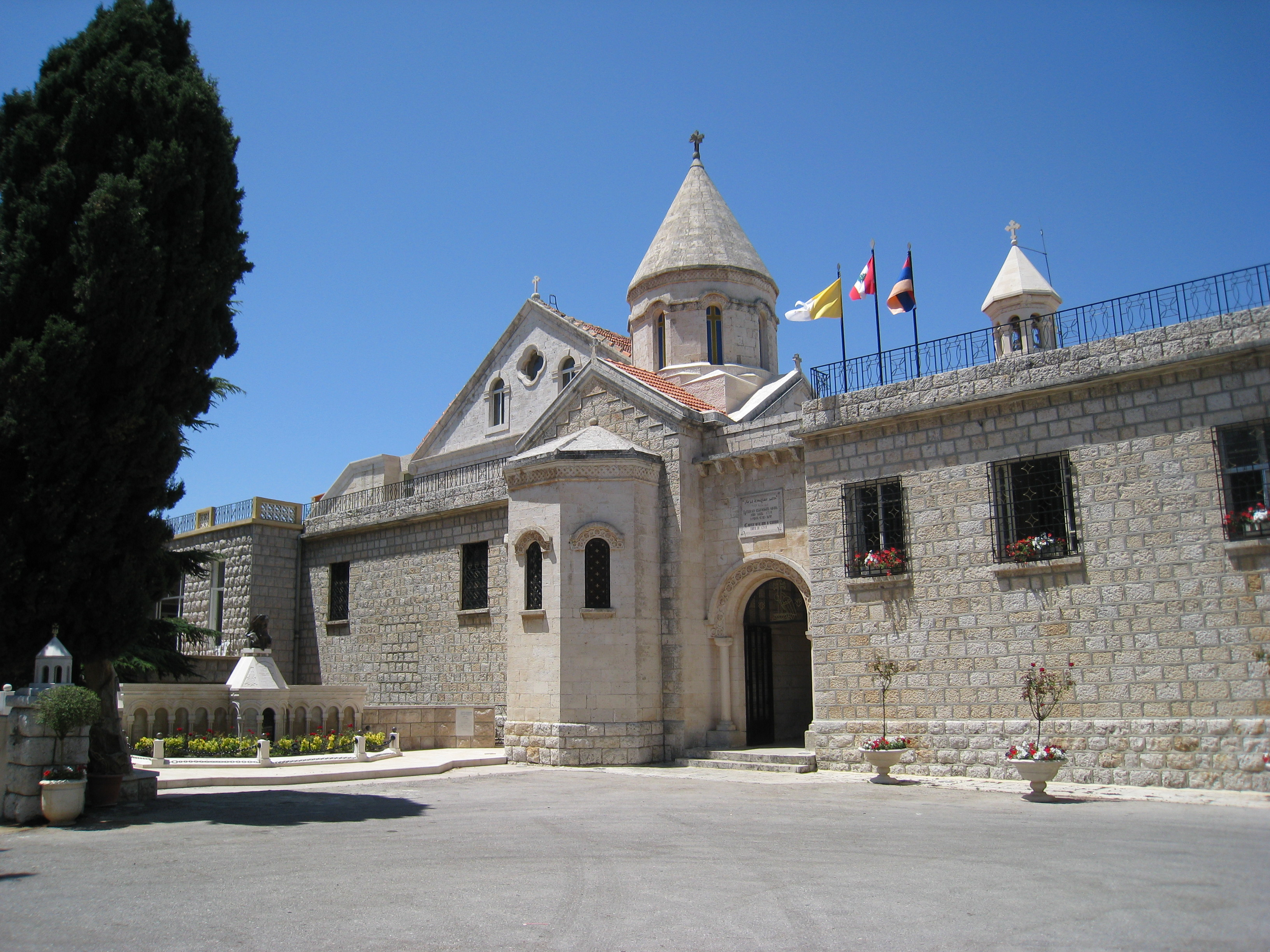 Inside the complex of the Armenian Catholic Patriarchate in Bzoummar, Lebanon.